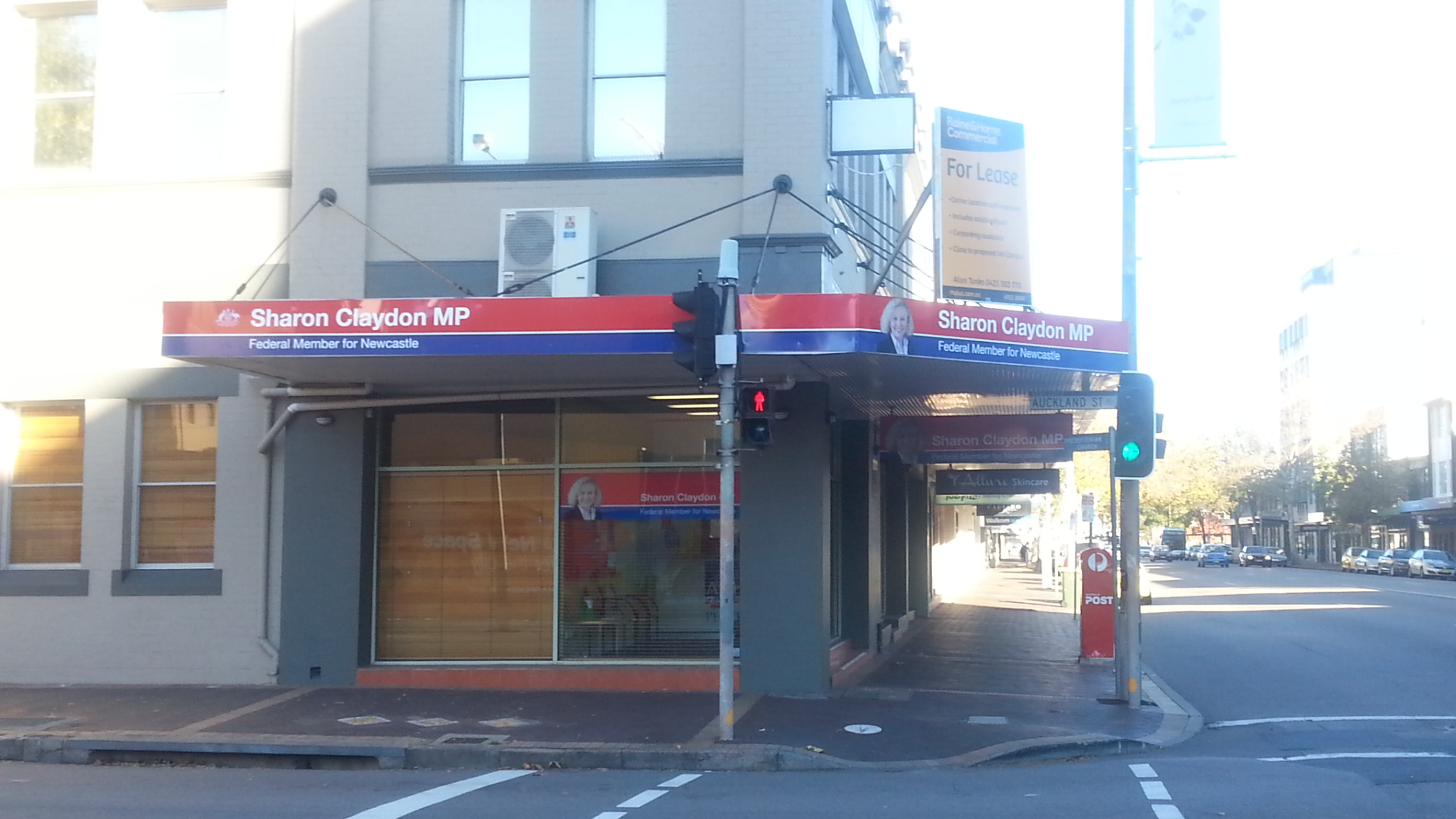 Office of Sharon Claydon MHR, federal Member for Newcastle.